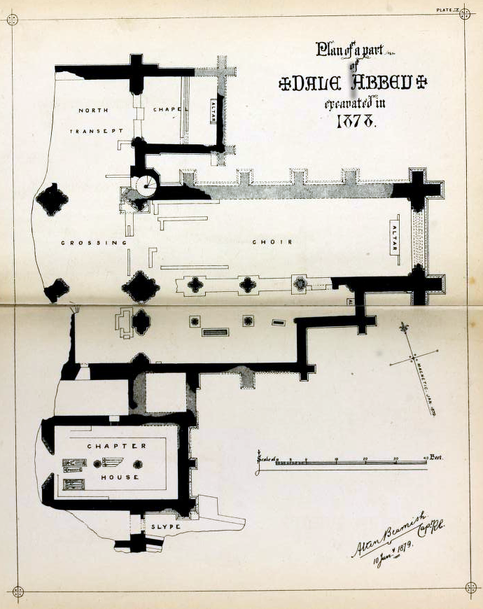 Plan of Dale Abbey as uncoverd during the 1878 excavations. Drawing by Alan Beamish and reproduced at Hope, W. H. St John (1879). "On the recent excavations on the site of Dale Abbey, Derbyshire. (1878)". Journal of the Derbyshire Archaeological and Natural History Society 1: 102-3. Bemrose and Sons. Retrieved on 30 August 2019.